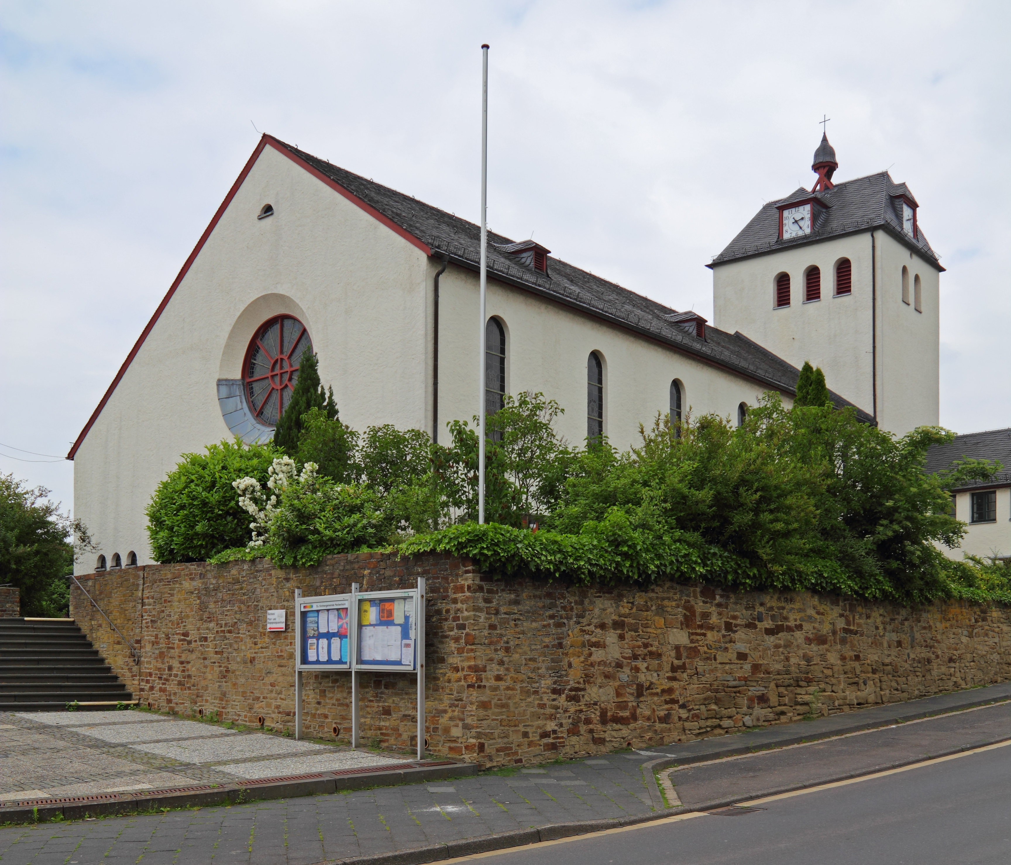 Catholic parish church «Saint Martin» in Wormersdorf (Rheinbach). This is a photograph of an architectural monument.